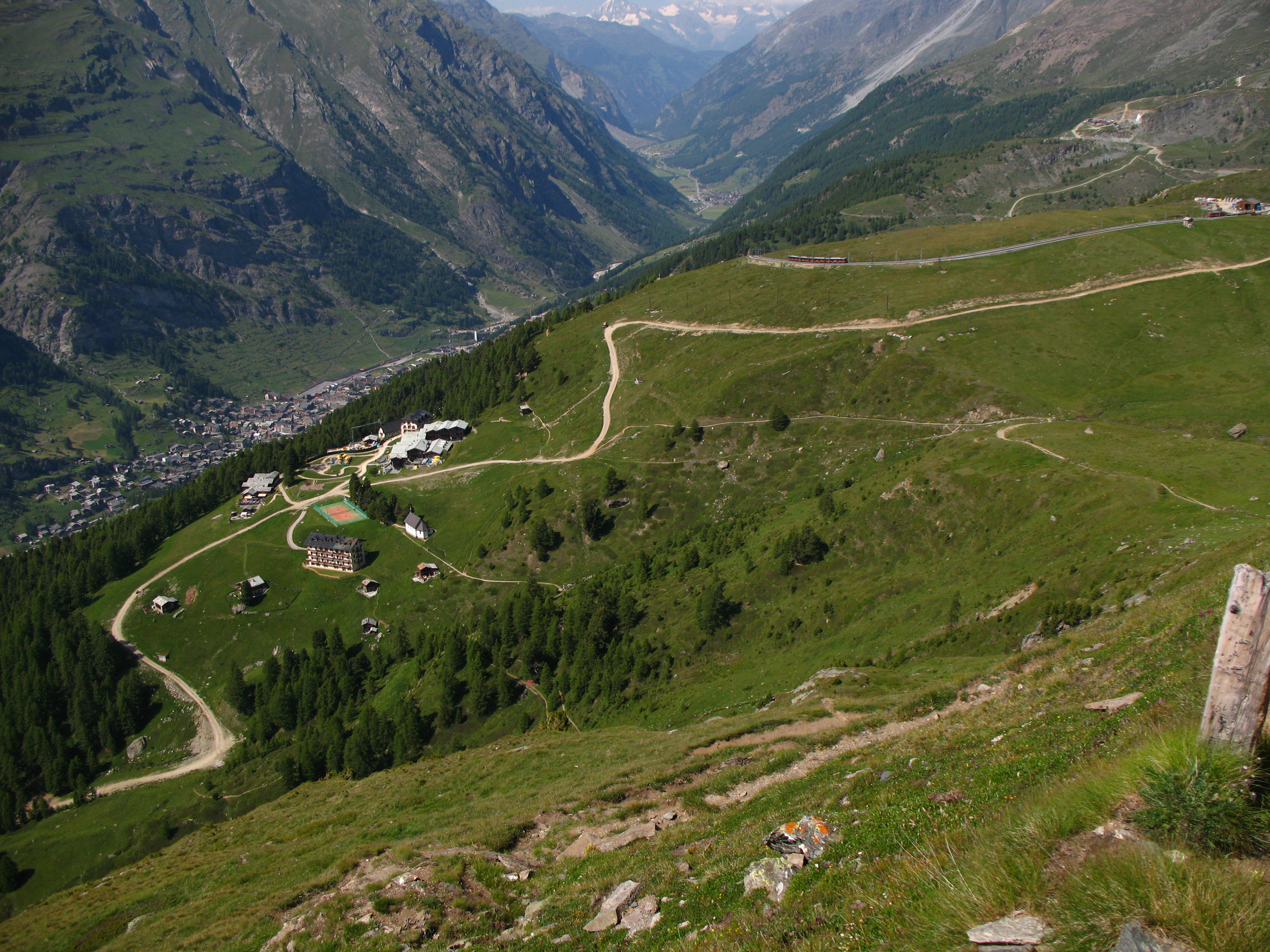 Zermatt, Riffelalp, and Sunnegga viewed from Riffelberg, Switzerland